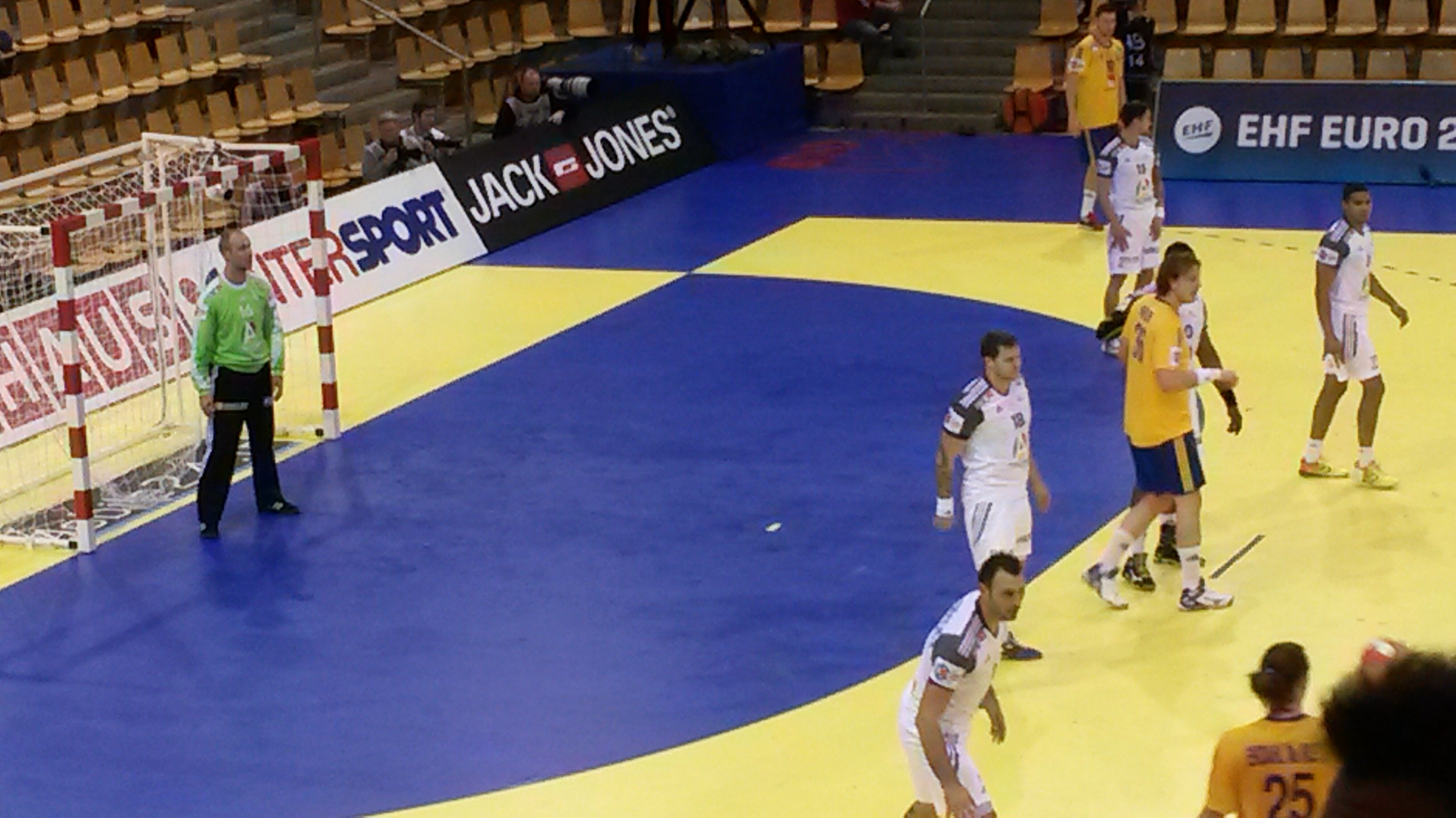 The Swedes are attacking the French goal, 1st half